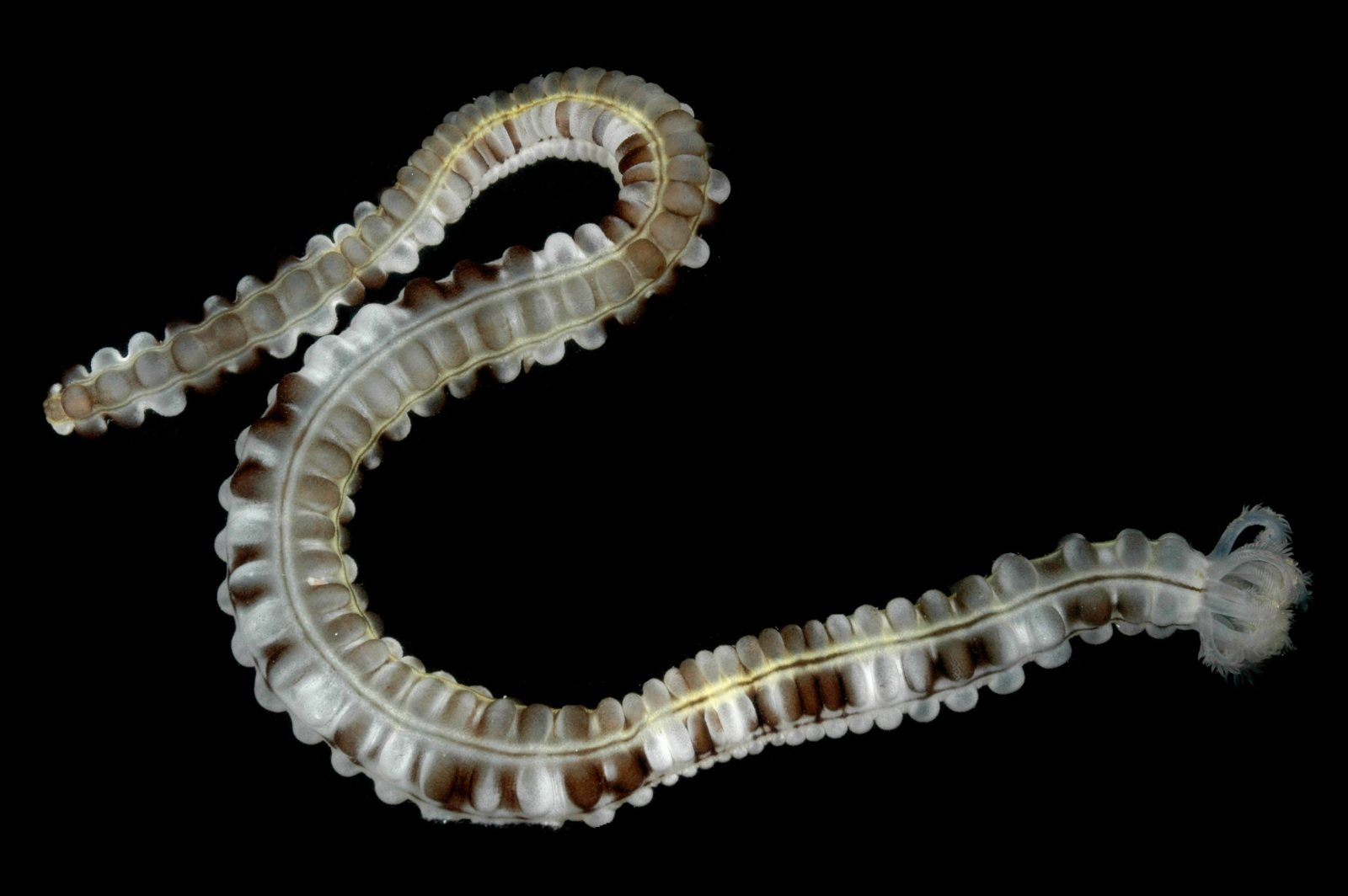 Sticky snake sea cucumber (Euapta godeffroyi) from Kosrae, Federated States of Micronesia